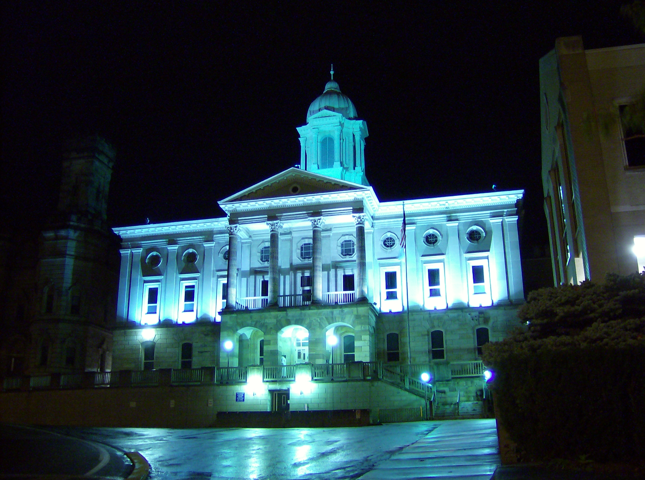 Night view of Armstrong County Courthouse, located at 450 Market Street in central Kittanning, Pennsylvania, United States.